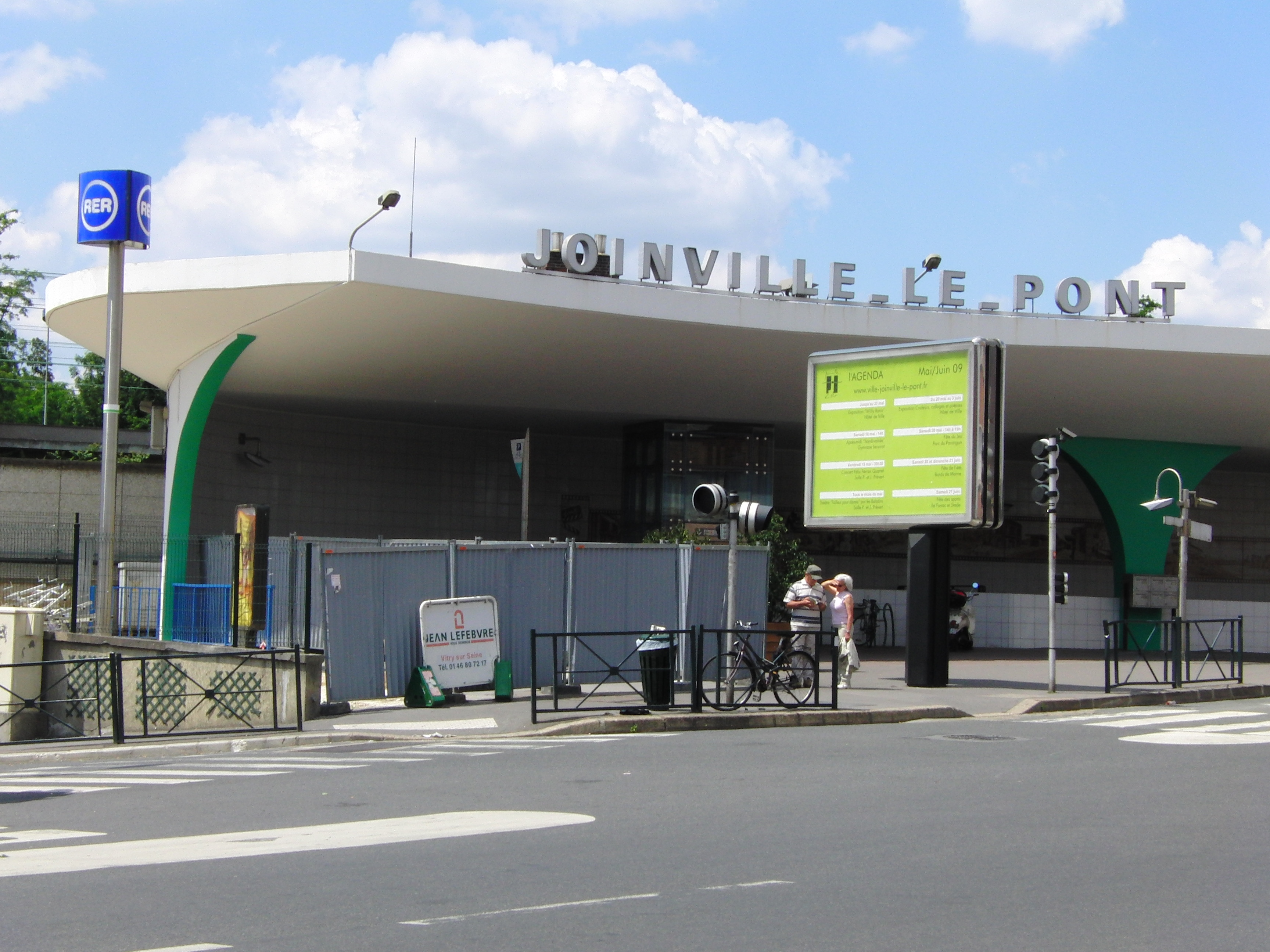 Joinville-le-Pont station in June 2009